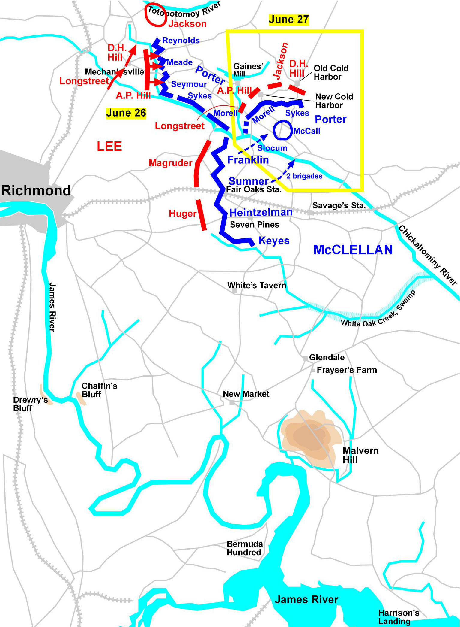 Map of the Seven Days Battles (Peninsula Campaign) of the American Civil War, actions on June 26-27, 1862. Drawn by Hal Jespersen in Macromedia Freehand. Source file available in (The reason this is a JPEG is that I have found that PNG versions)